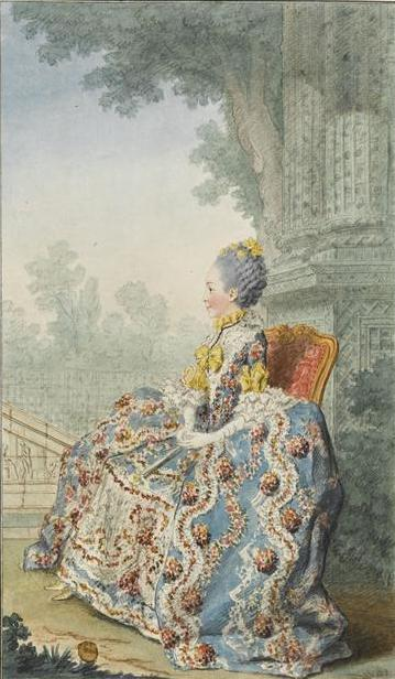 Mademoiselle (Bathilde d'Orléans)